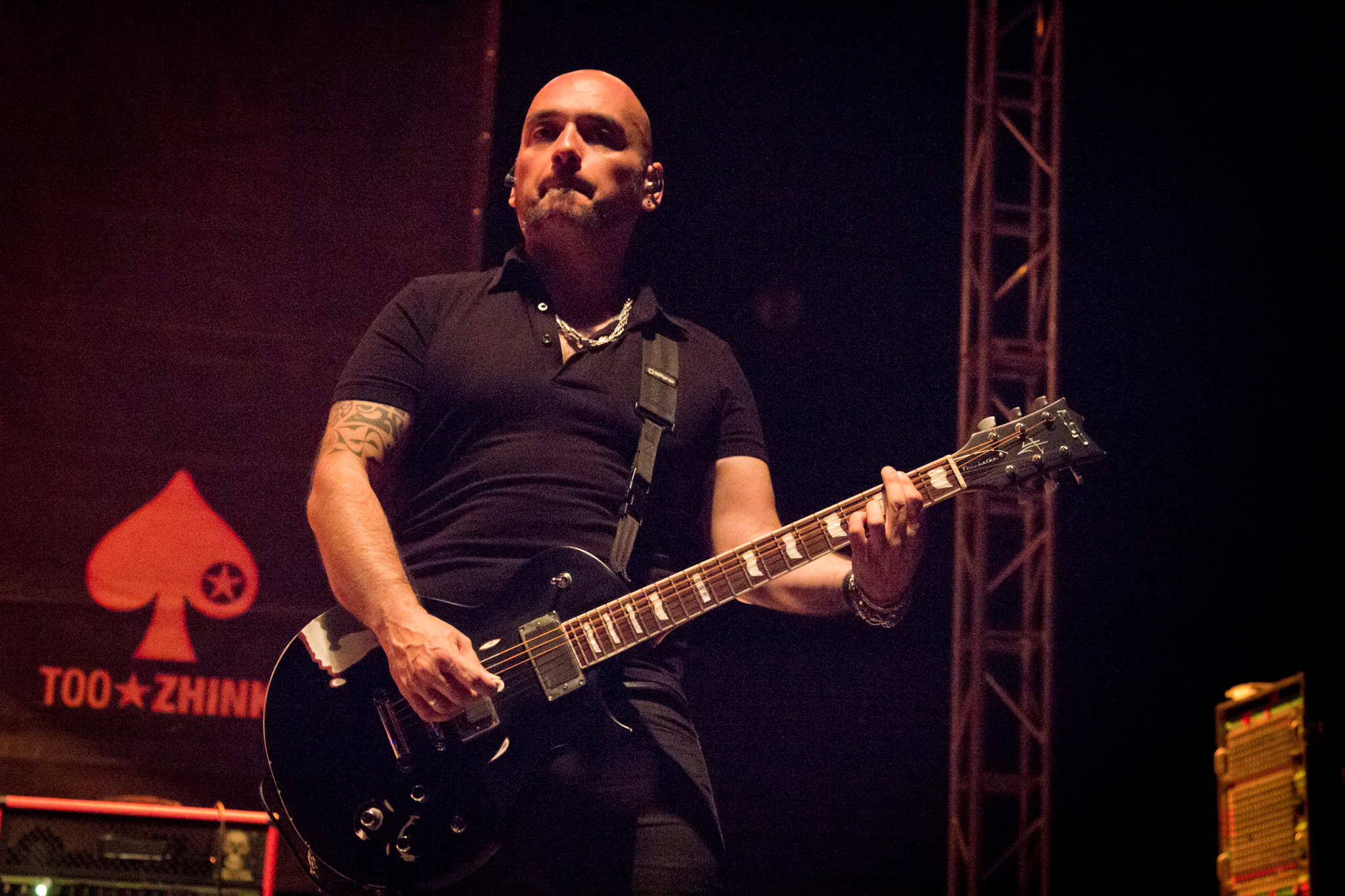 Spanish metal band Sôber at Asaco Metal Fest 2013, Parla, Spain.